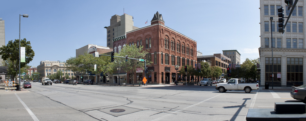 Cedar Rapids, Iowa. Corner of 1st Avenue and 2nd Street. Taken Summer 2011.